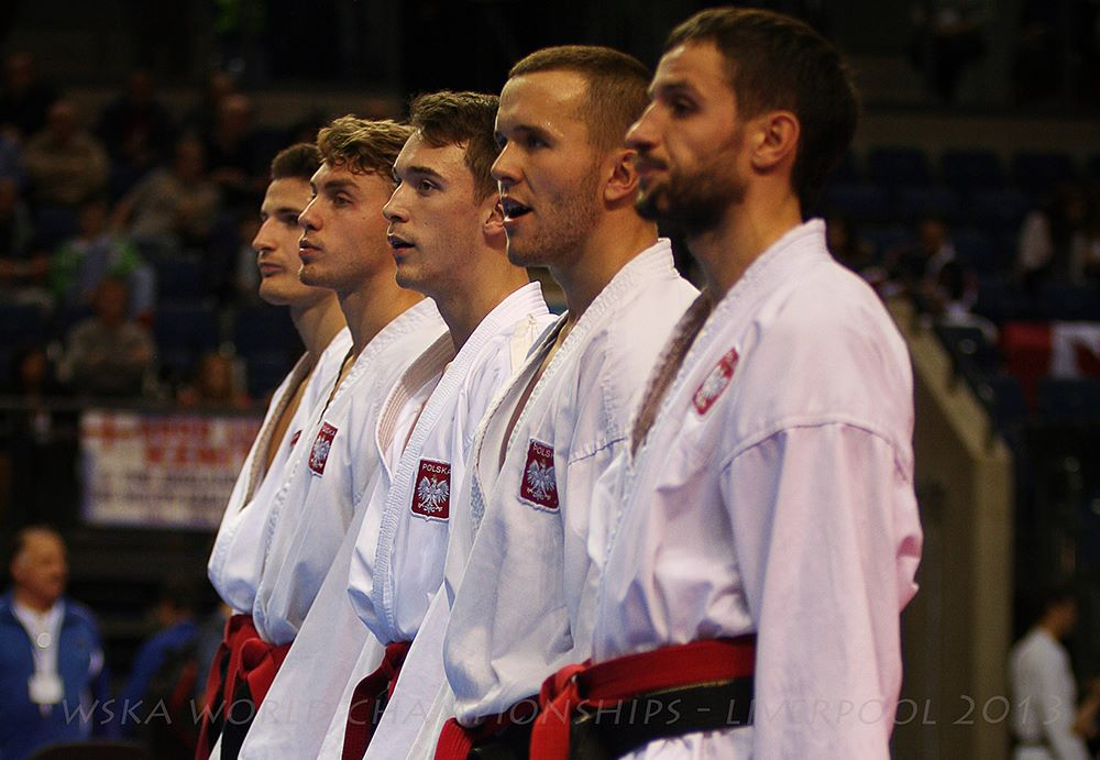 Urban mit dem polnischen Kumite-Team